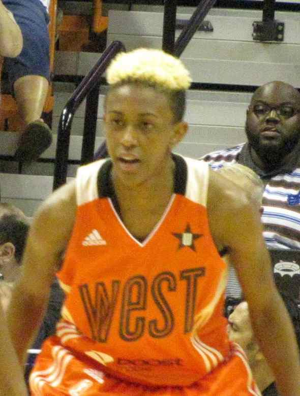 Danielle Robinson at 2013 WNBA All-Star game at Mohegan Sun 27 July 2013